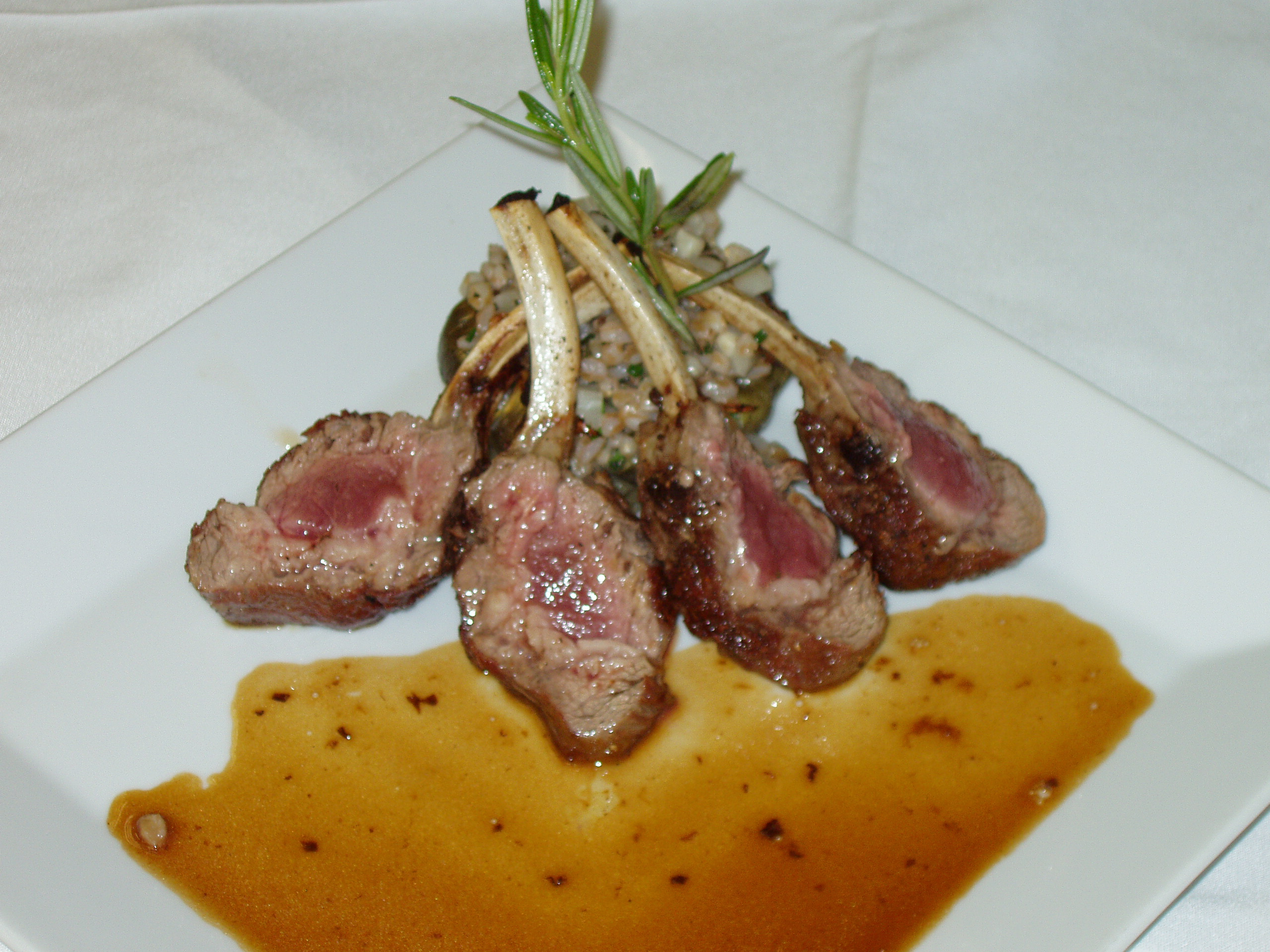 Lamb chops